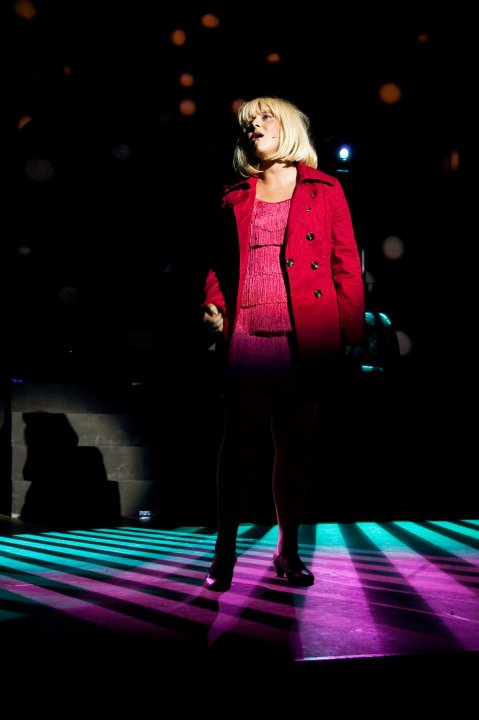 Lynley Fuller as 'Ellie Greenwich' in the 2010 production of Leader Of The Pack